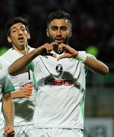 Iran national football team and Zob Ahan player, Kaveh Rezaei